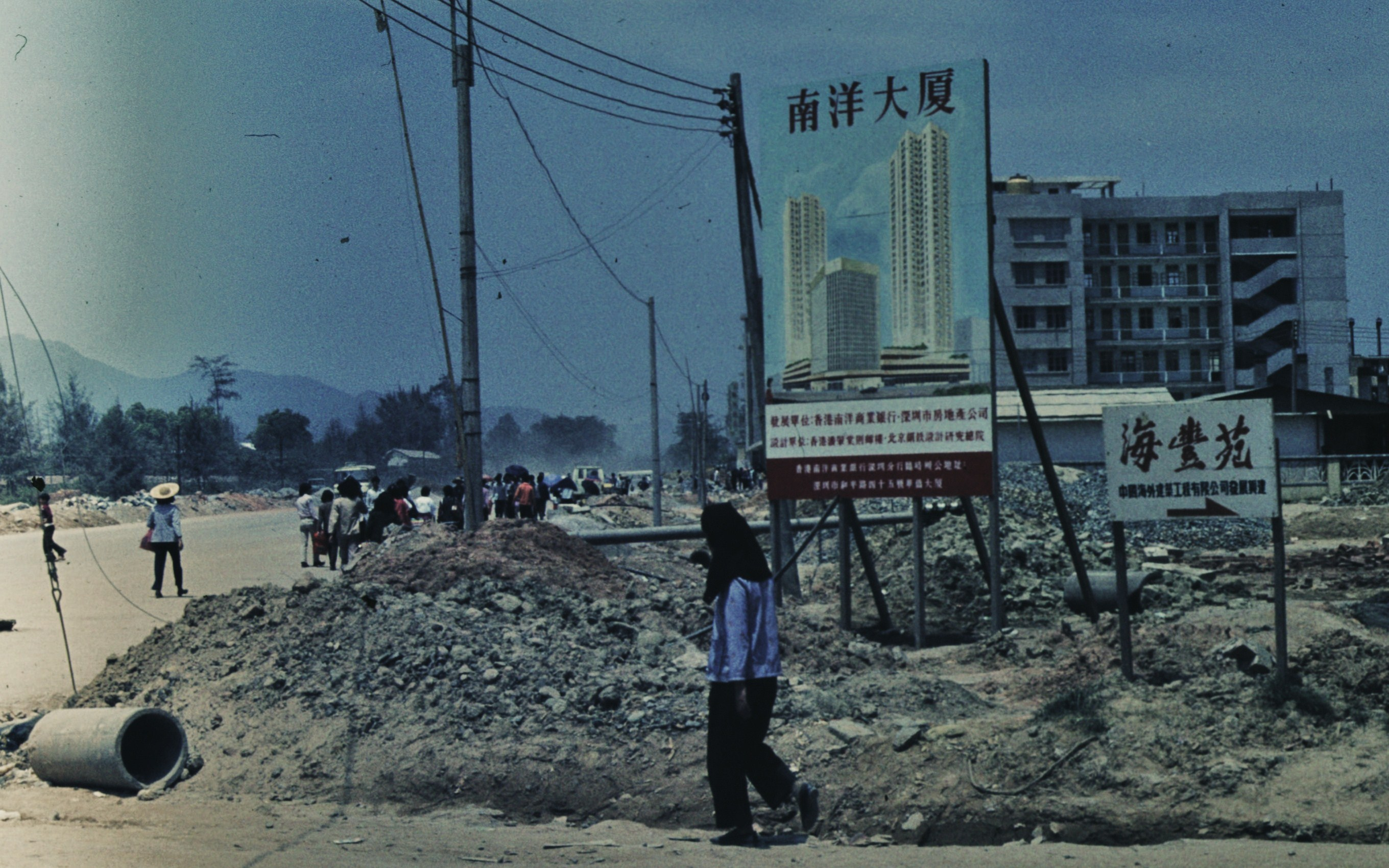 Shenchen in 1982